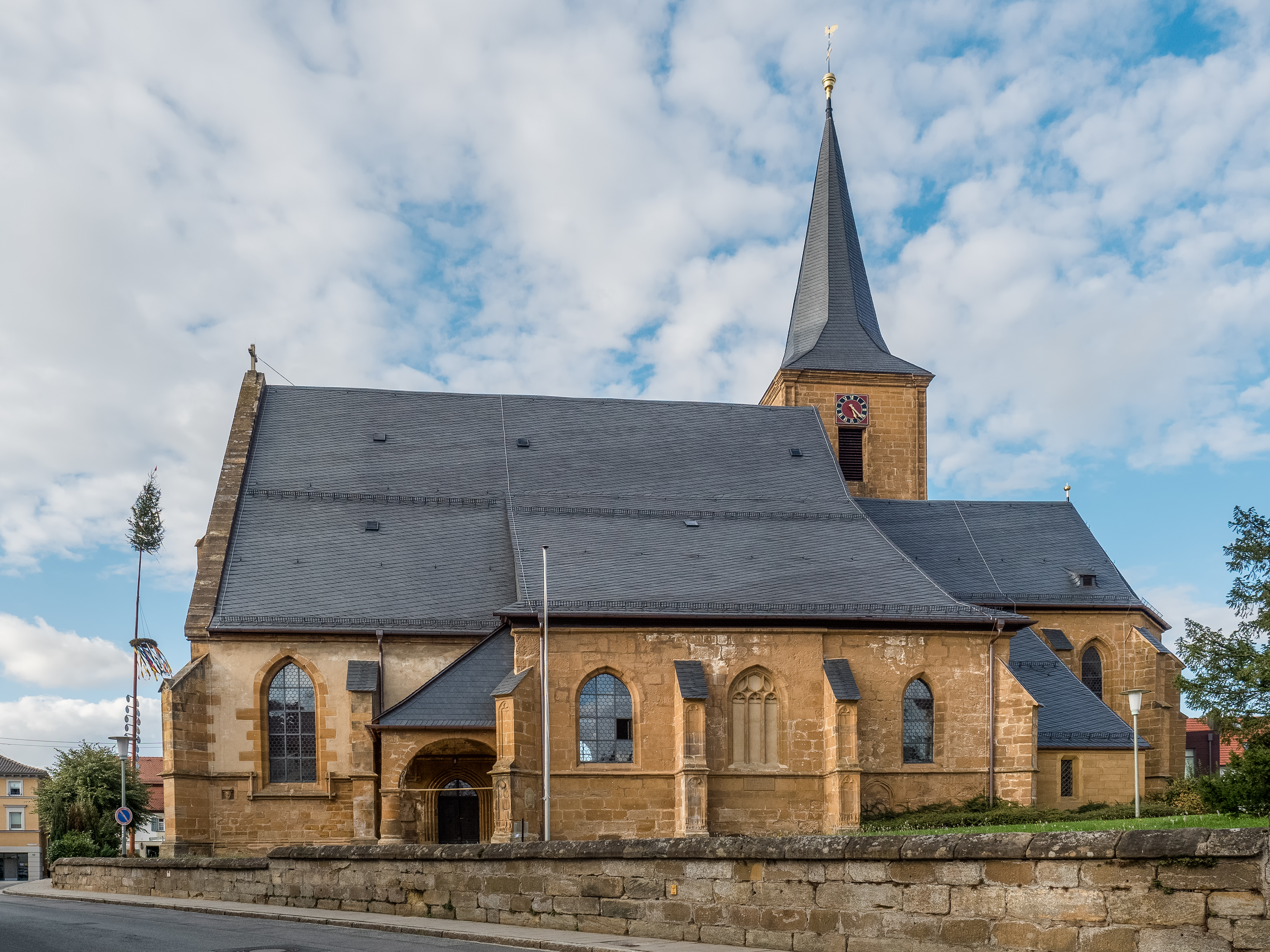 Catholic Parish church St.Kilian in Scheßlitz